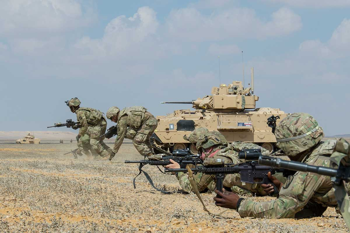 U.S Army Soldiers assigned to Company A, 1st Battalion, 155th Infantry Regiment, 155th Armored Brigade Combat Team, Task Force Spartan, bound toward an objective during a rehearsal for a combined live-fire exercise near Alexandria, Egypt, Sept. 10, 2018. The 155th ABCT took part in exercise Bright Star 18, a multilateral U.S. Central Command training exercise. U.S. Army photo by Sgt. James Lefty Larimer